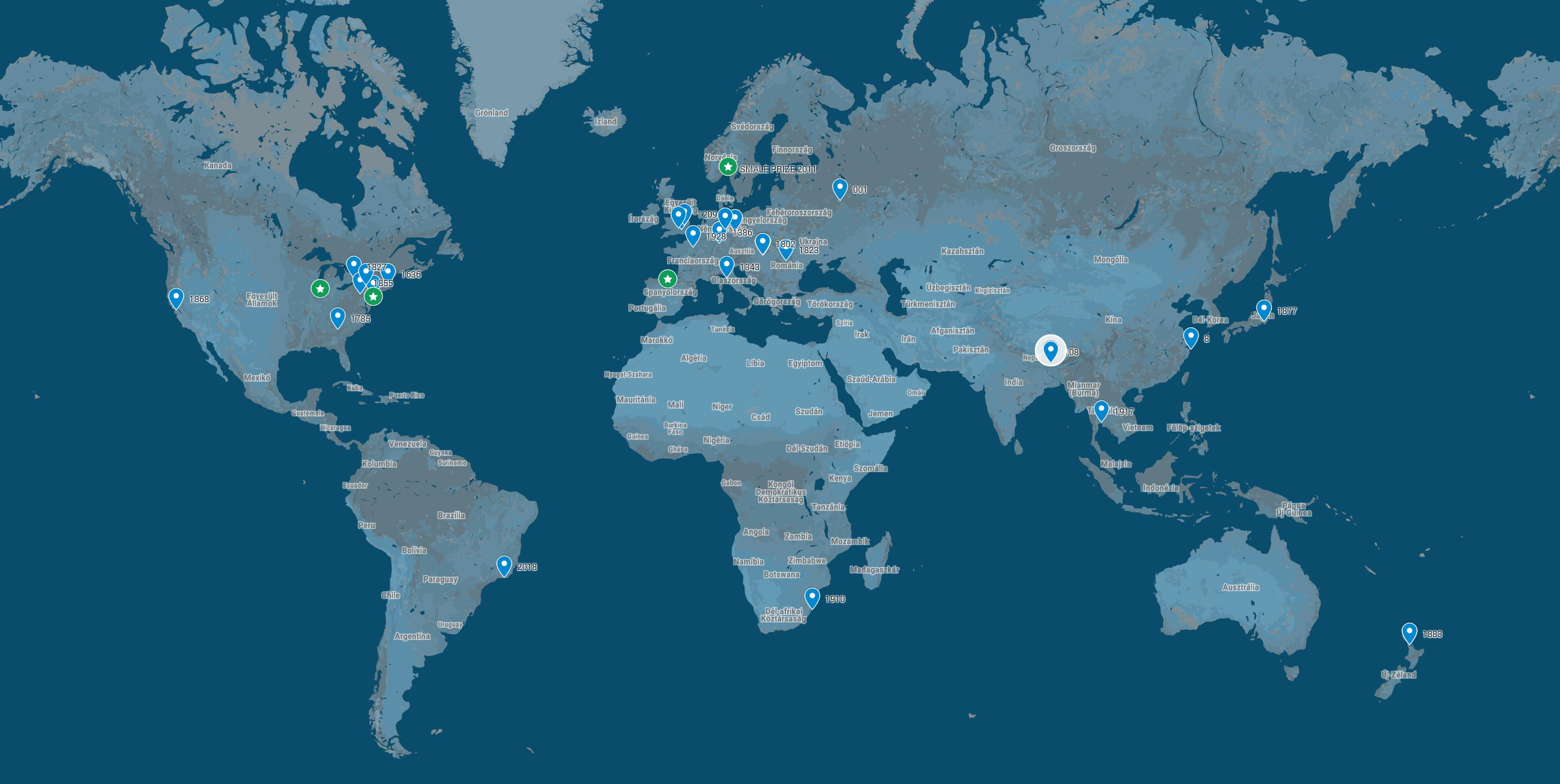 Blue markers correspond to numbered pieces whereas green markers correspond to the current location of Gomboc models distributed as Stephen Smale prizes.